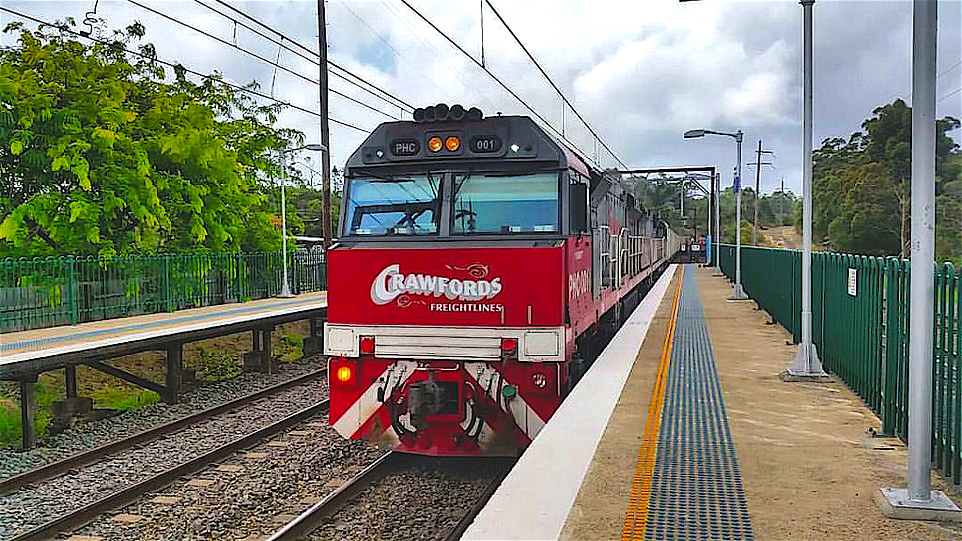 Crawfords Freightlines' new PHC class locomotives (PHC001+PHC002) doing their Sandgate to Botany service (4190) seen passing Cowan